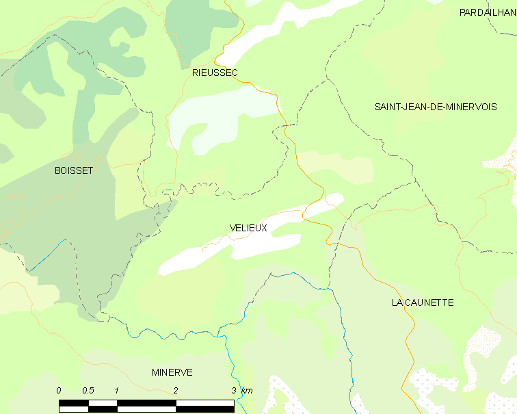 Map commune FR insee code 34326.png - Vélieux